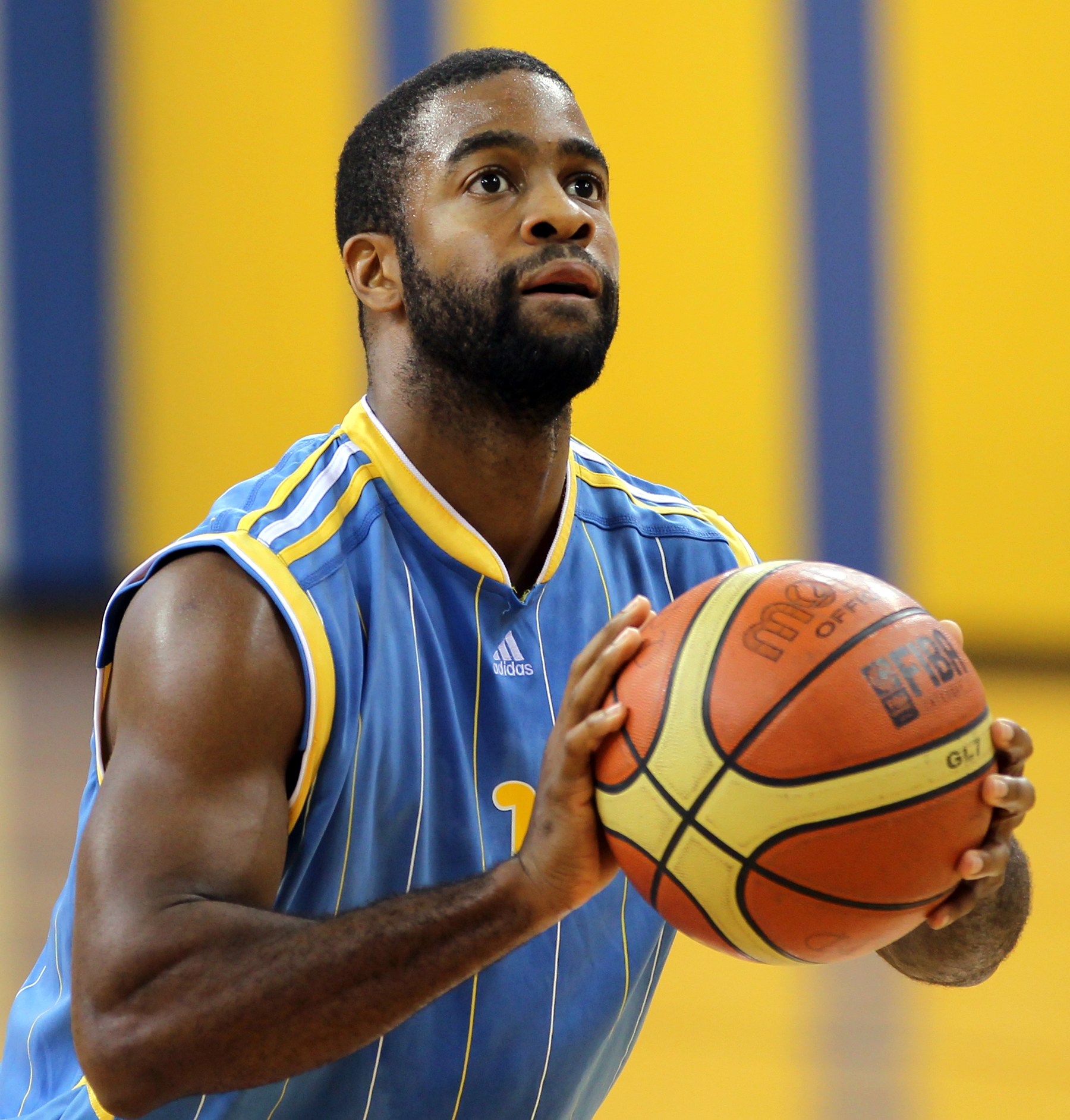 Al Gharafa's American pointguard Boney Watson lines up a shot during a Qatar League game. Picture by Mohan